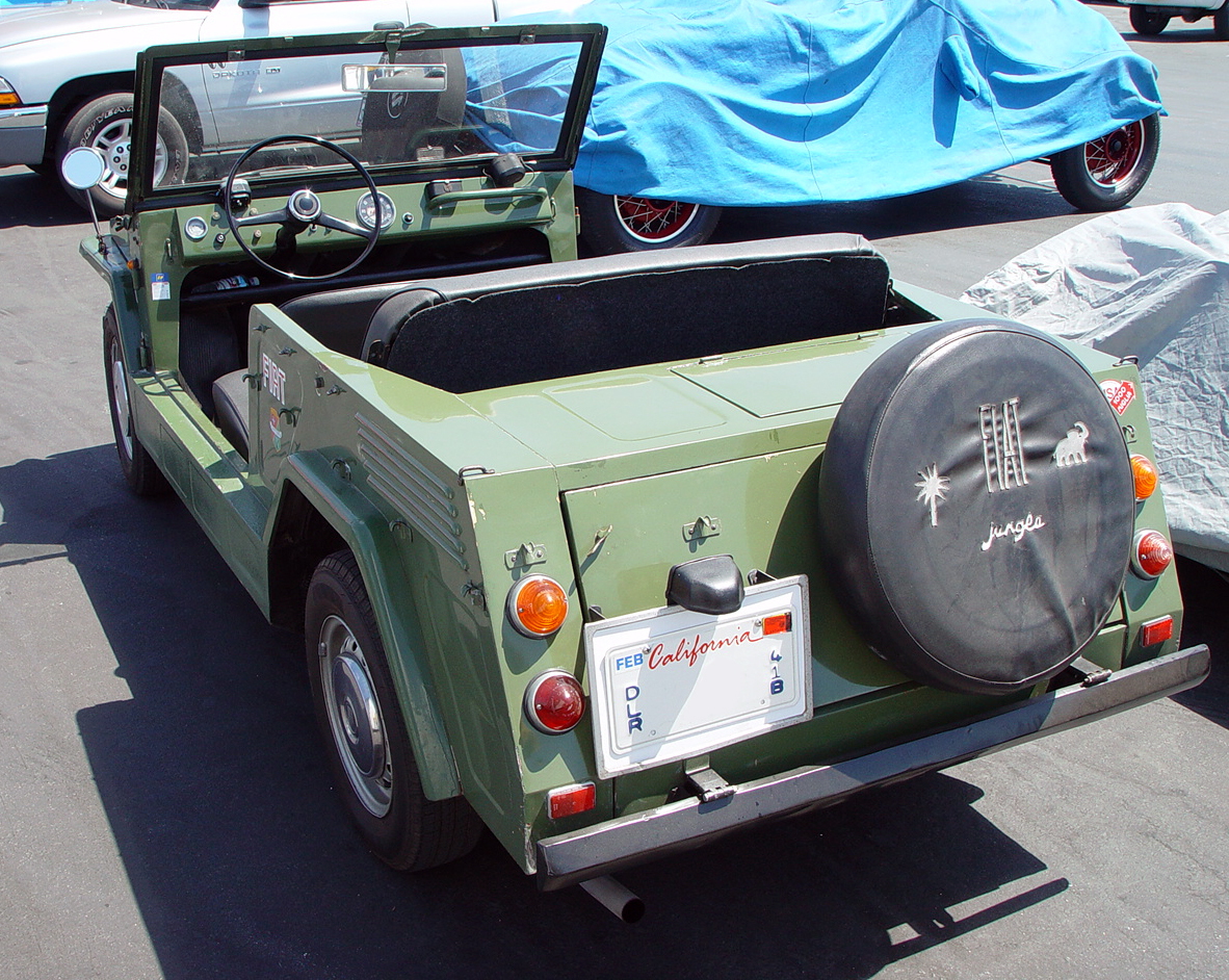 Fiat 600 Savio Jungla, a little multi-purpose torpedo-style vehicle on Fiat 600 underpinnings. Photographed at the 2005 Monterey Historics.